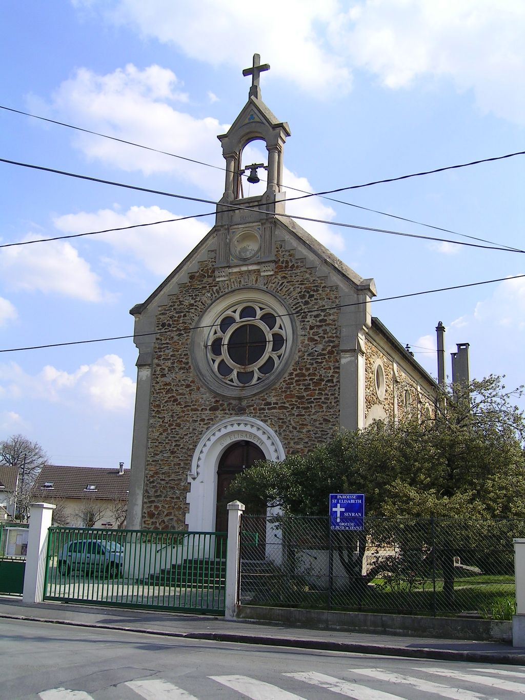 Eglise Sainte Elisabeth Photo personnelle (own work) de Marianna